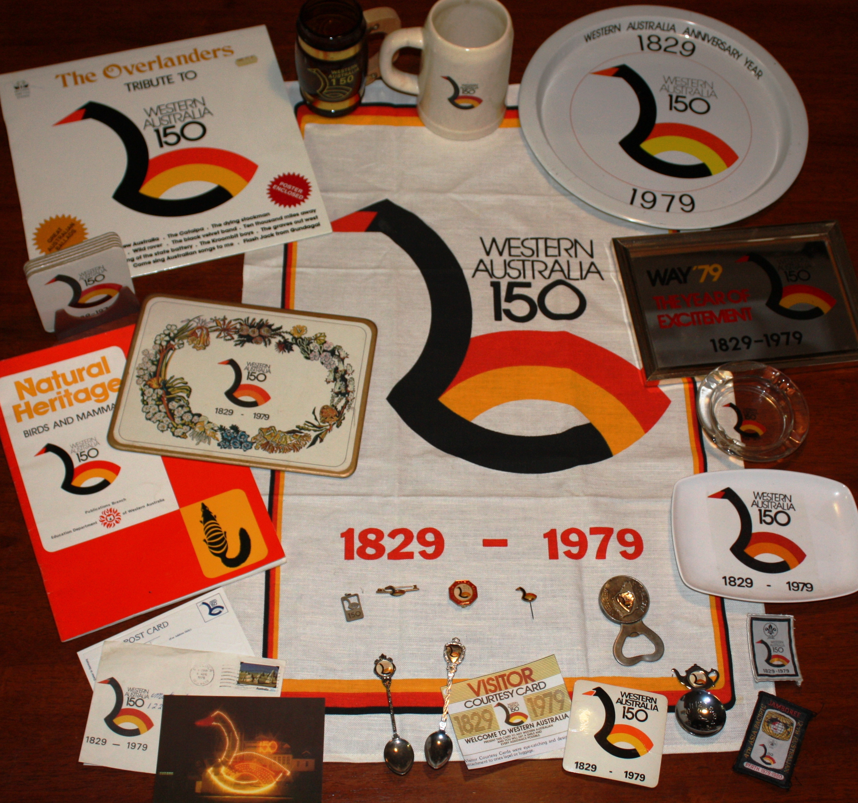 A pile of WAY '79 memorabilia: record, mugs, platter, tea-towel, place mat, plate, pins, bottle opener, badges, spoons, philatelic material, etcetera.